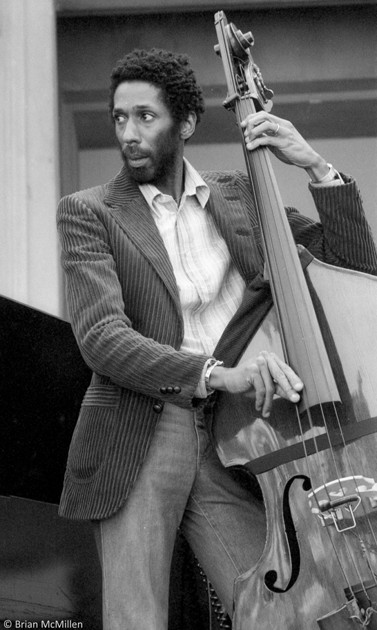 Ron Carter at UC Berkeley Jazz Festival, 5/25/80. Photo by Brian McMillen /